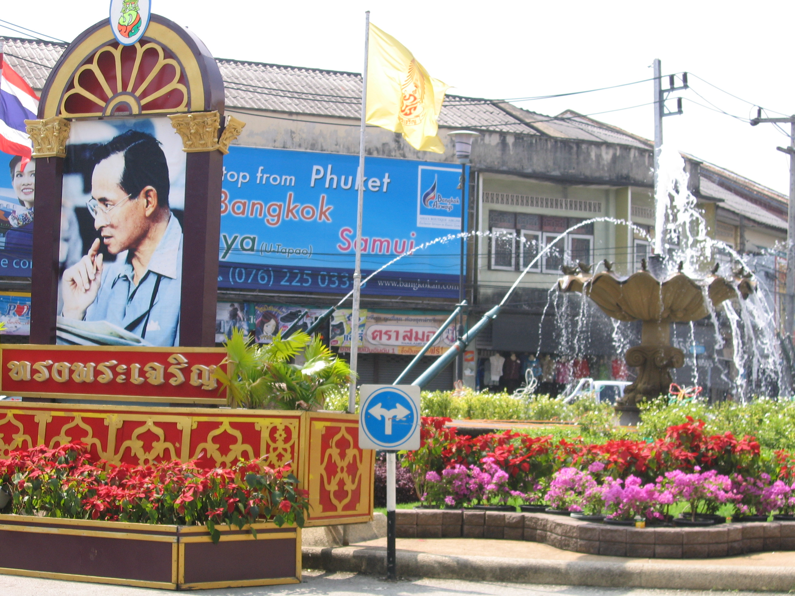 Phuket downtown square in Phuket, Thailand